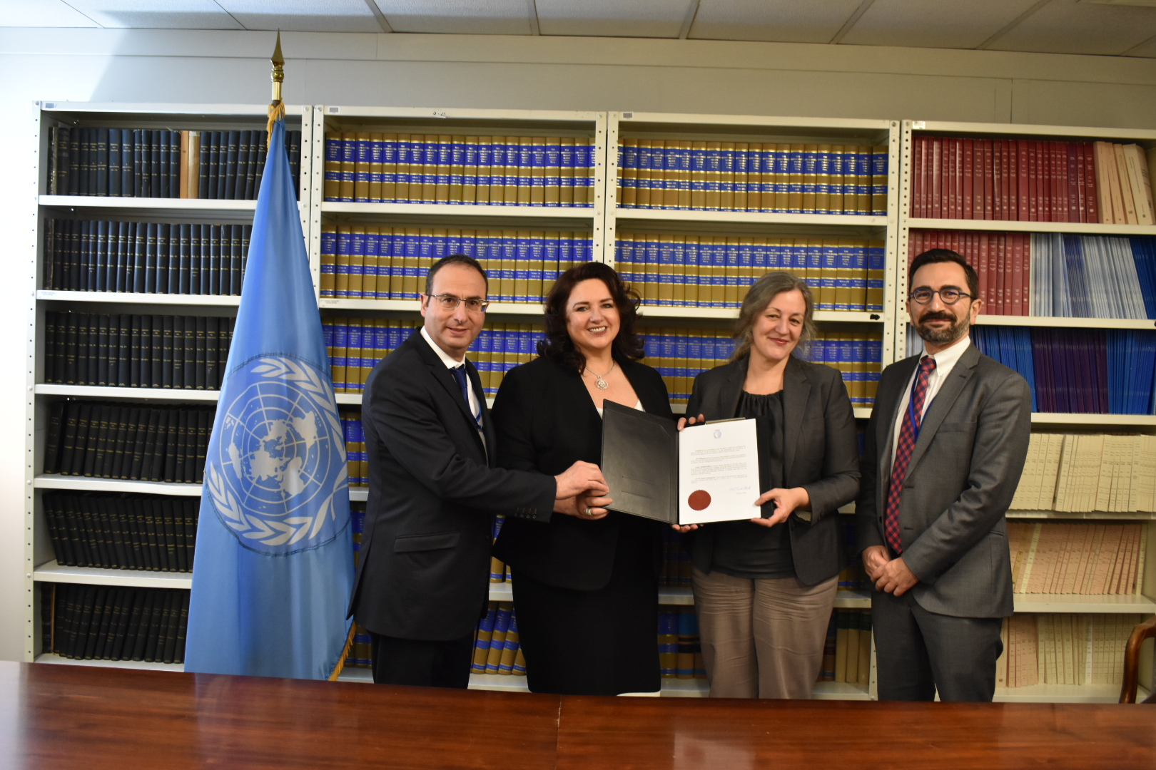 On behalf of the Republic of Malta, Helena Dalli, Minister for European Affairs and Equality (9 June 2017 – 24 July 2019) submitted Malta's instrument of accession to the Optional Protocol to CEDAW at the United Nations Headquarters in New York City.